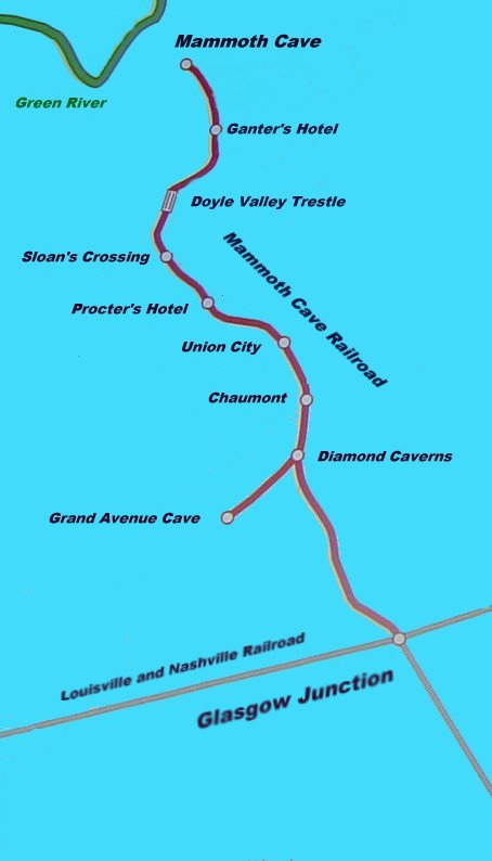 drawing of the Mammoth Cave railroad spur